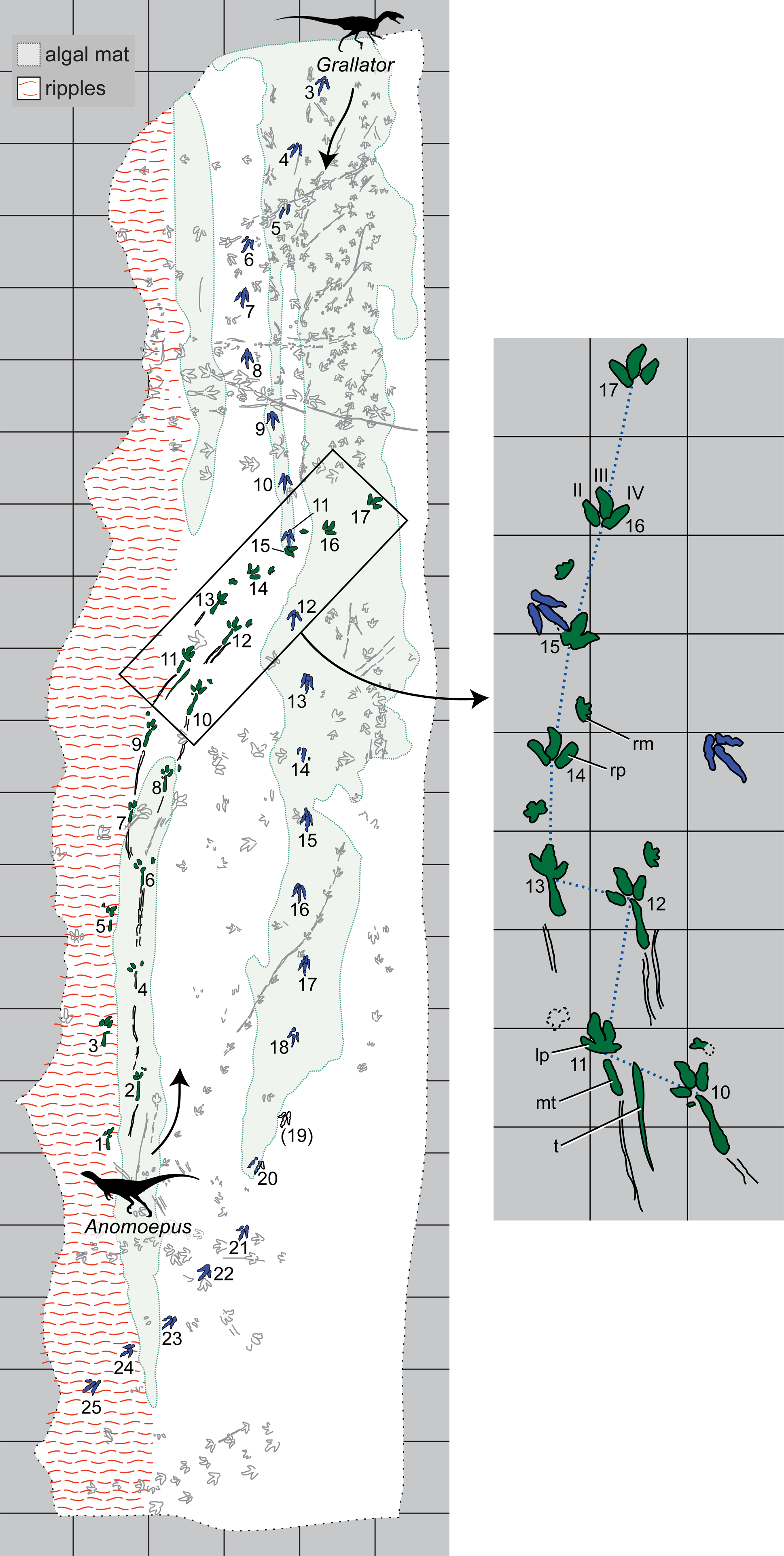 Map of major geological features and tracks at the Moyeni tracksite. Trackways of Anomoepus and Grallator are in solid green and blue, respectively; all other trackways are in 50% grey. Trackway numbering (Arabic numerals) begins with the first recognized step of each trackmaker. Grallator tracks 1 and 2 are not shown because they are now underneath a retaining wall. Red wavy lines indicate ripple marks; solid light grey fields indicate algal-matted surface. The inset highlights postural and gait changes in the Anomoepus trackway, which was made by a basal ornithischian. A shift from wide-gauge to narrow-gauge posture (between tracks 13 and 14) is marked by shift in pace angulation (blue dotted line) and was accompanied by a brief pause, during which the tail registered on the substrate when tracks 12 and 13 were impressed. The shift from a quadrupedal to a bipedal gait (between tracks 15 and 16) occurs atop the algal matted surface. Note that Grallator track 11 (blue) overprints Anomoepus track 15, indicating it was made later. Grid pattern forms 1 meter squares for both maps. Abbreviations: lm, left manus; lp, left pes; mt, metatarsus; rm, right manus; rp, right pes; t, tail; Roman numerals indicate pedal digits.